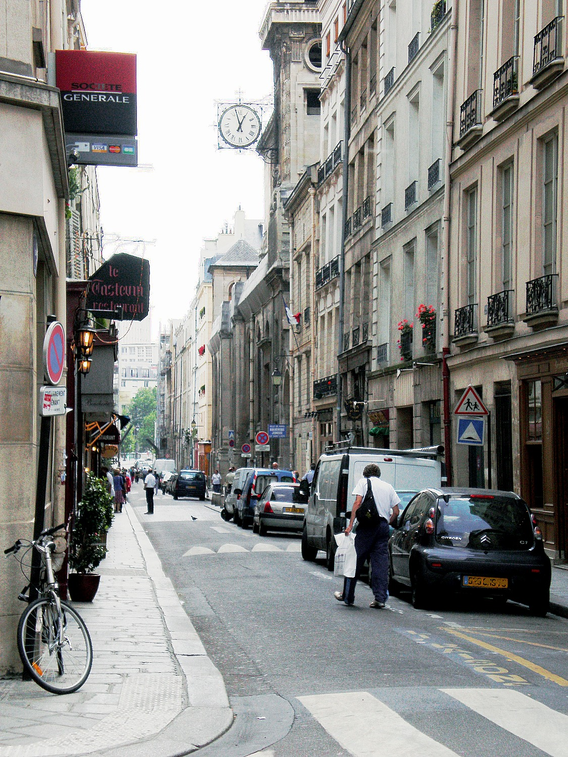 Ile Saint-Louis - Paris